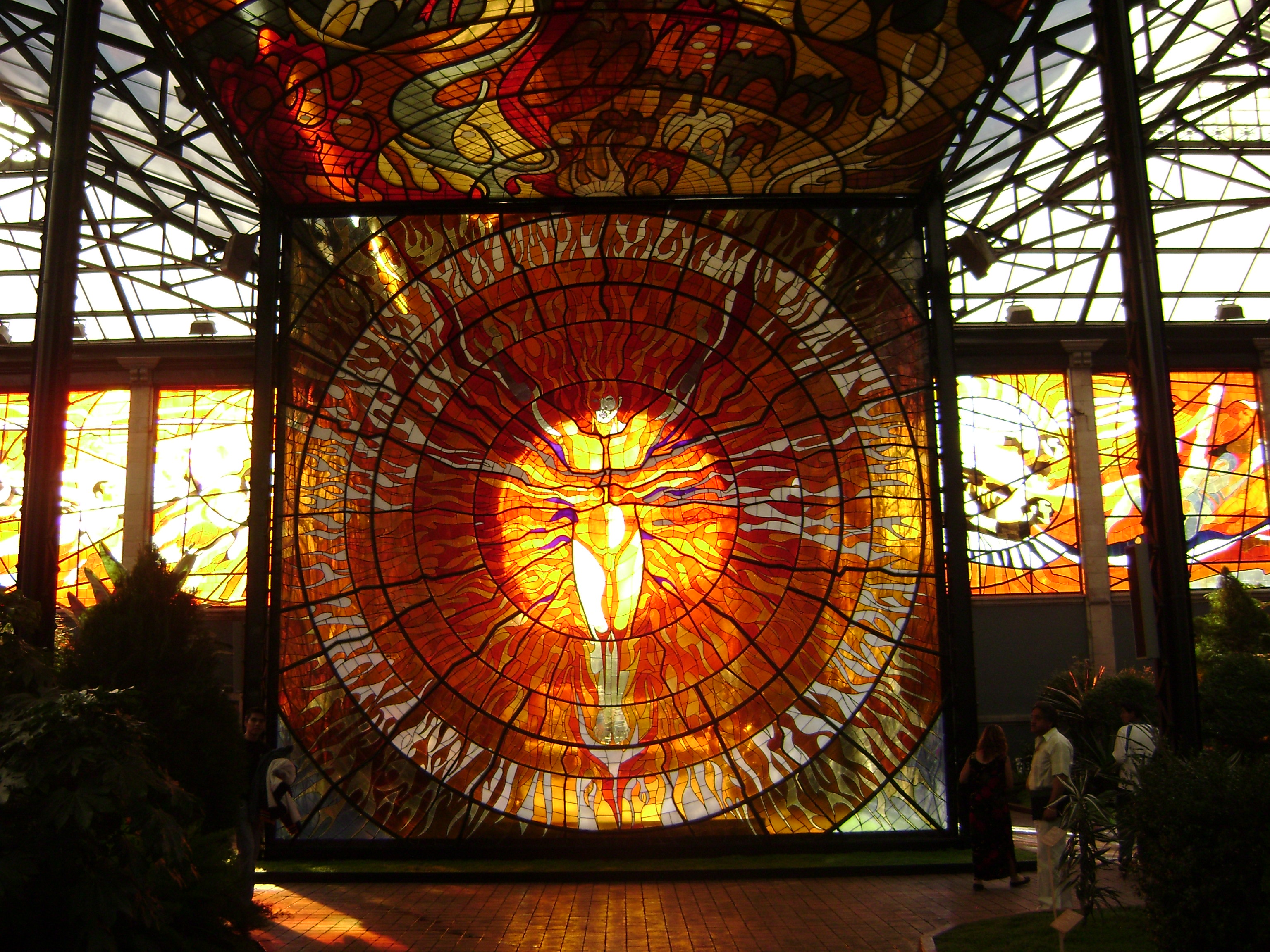 Stained Glass the fire man at Cosmovitral.